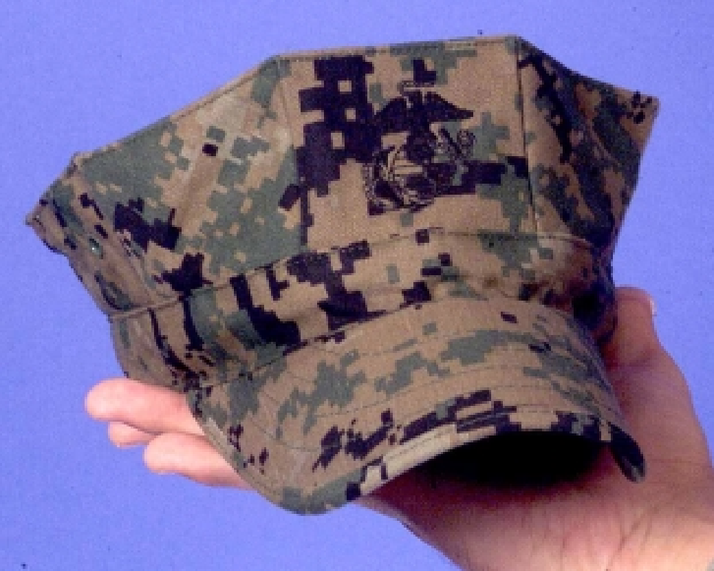 Full view of USMC MCCUU eight-point cover, 2002